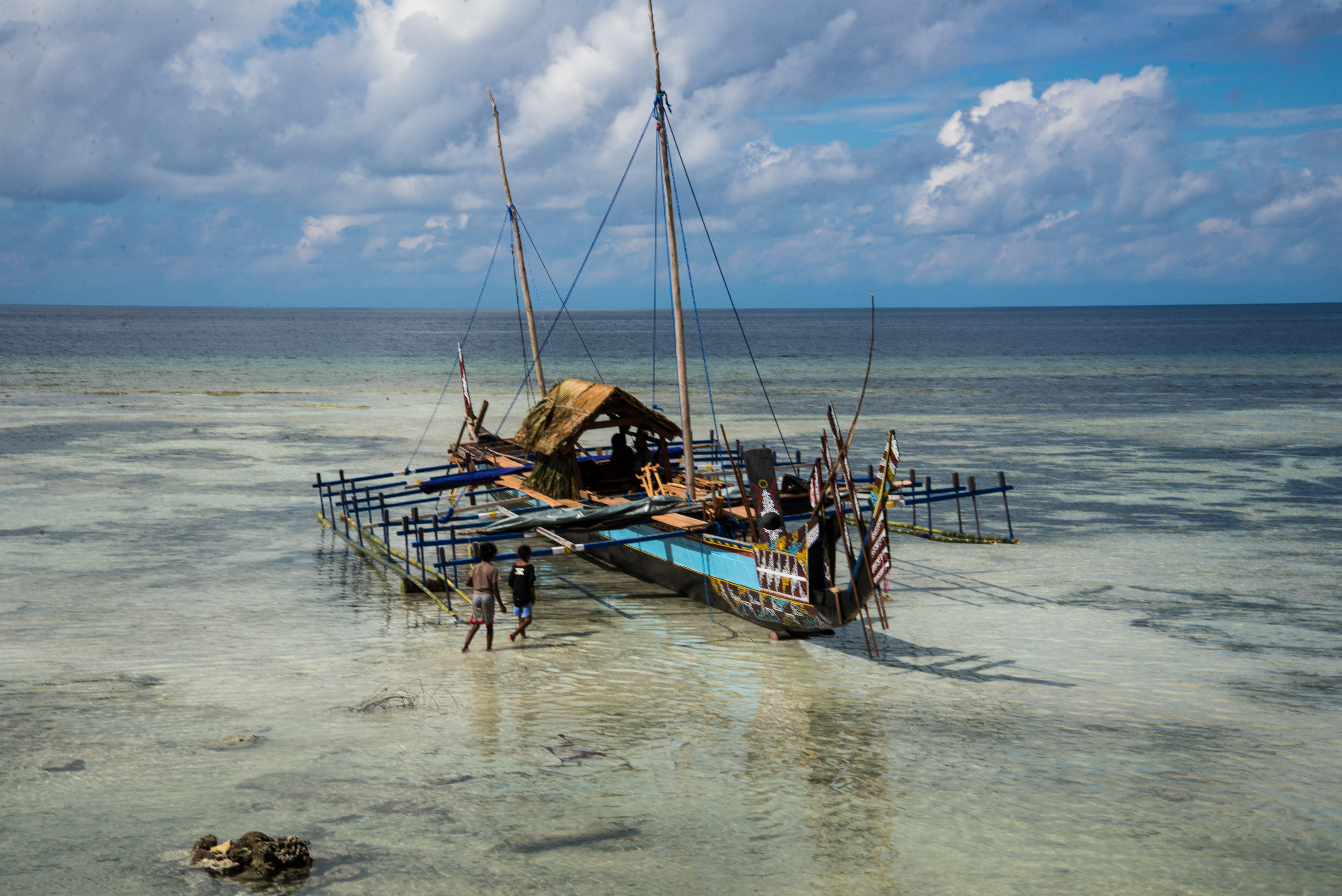 Biak tribes fishing boat.